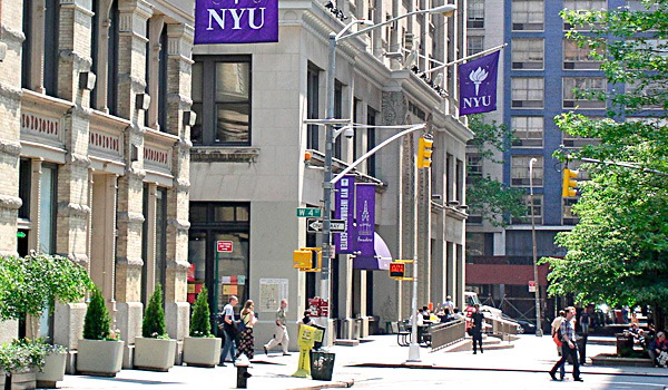 New York University Campus